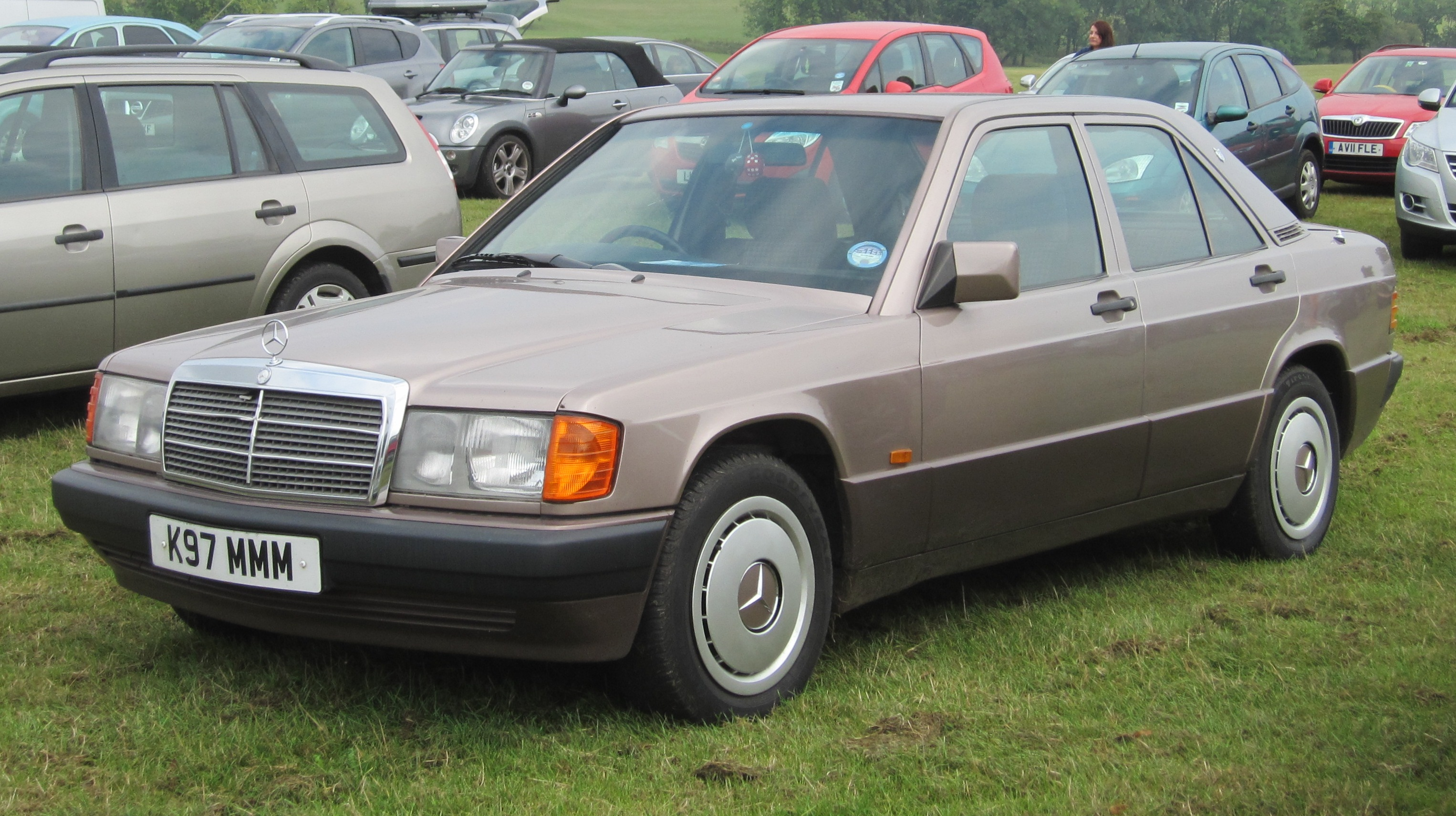 Mercedes Benz 190E (1993)